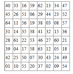 Solution of knight's tour problem for 5-leaper.